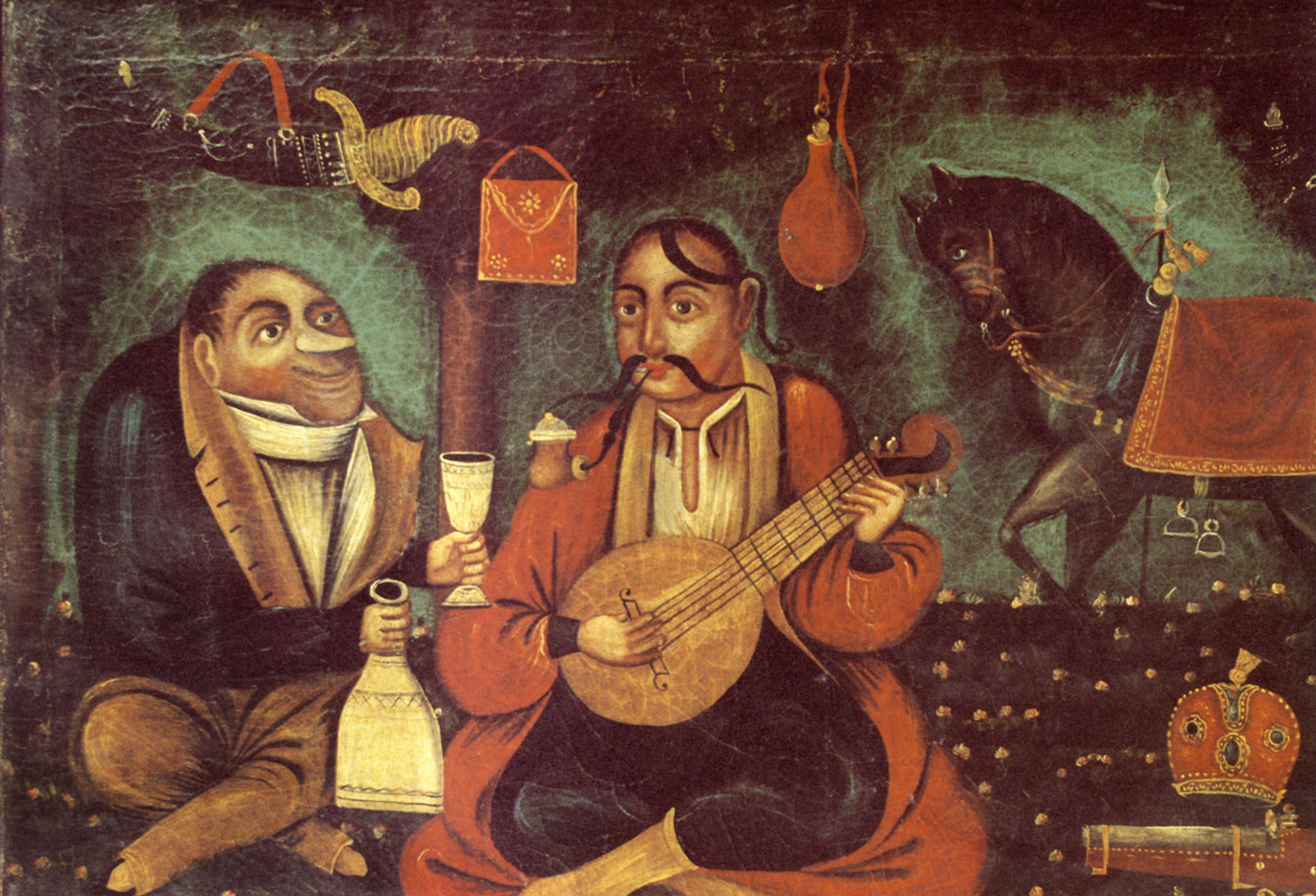 Cossack Mamay